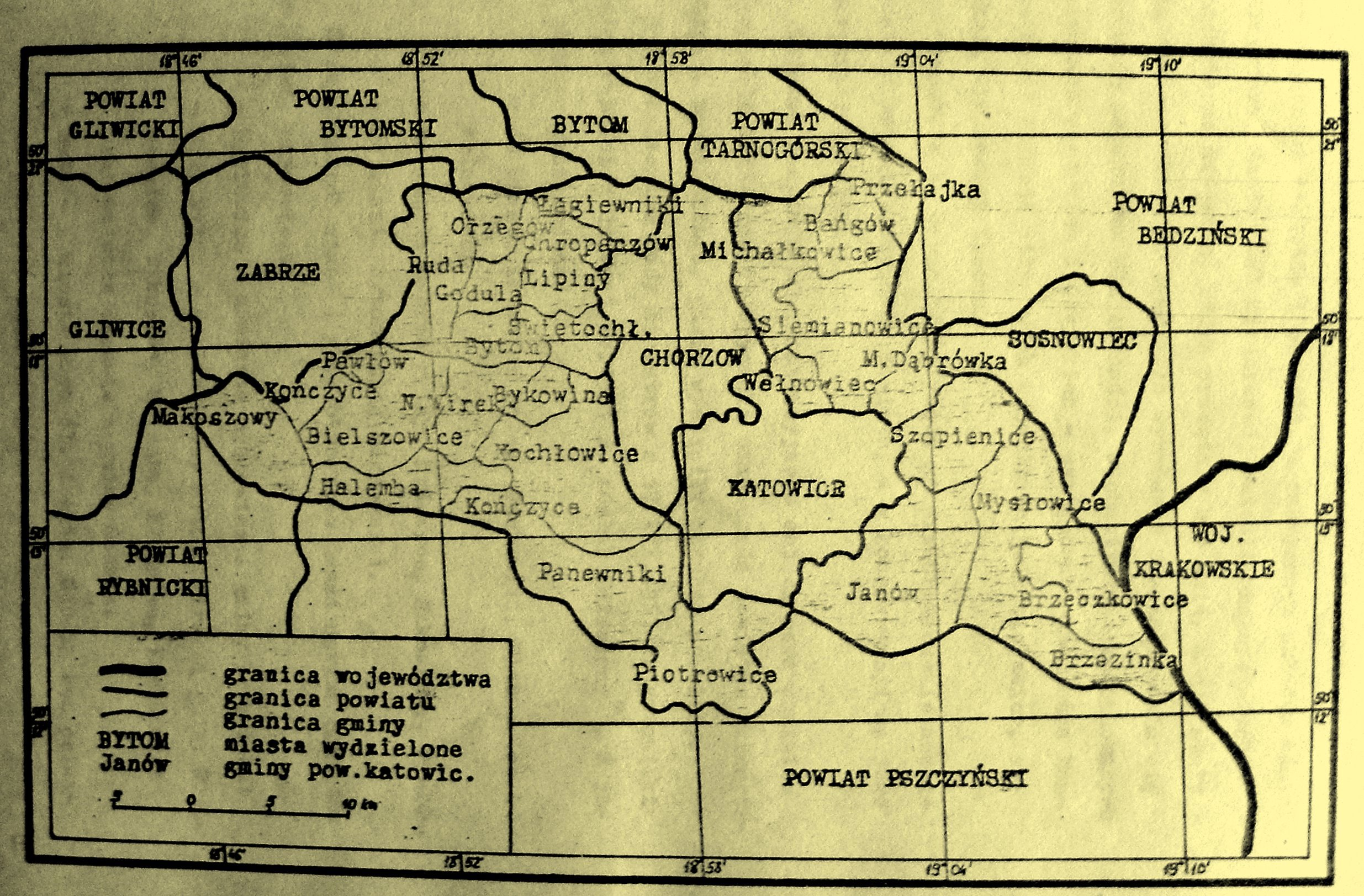 Map of the territory of the city of Katowice 1945-1950, Poland